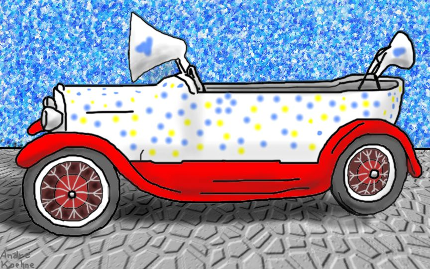 I don't do art for a living, neither for personal nor professional propaganda. I don't make any drawings for money. Thanks.